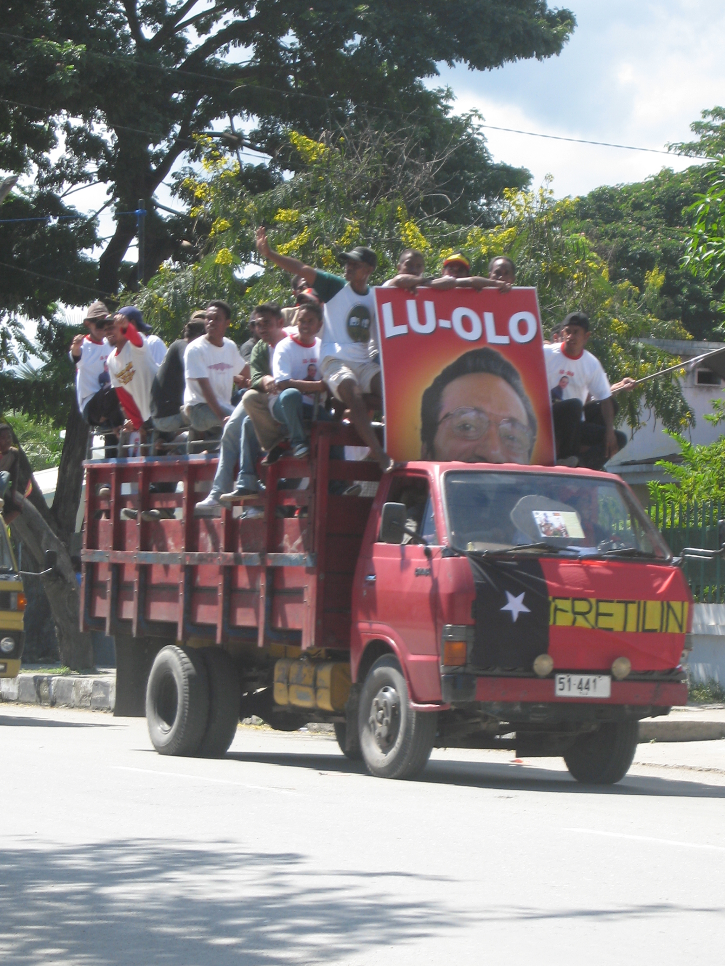 FRETILIN rally at presidential election 2007